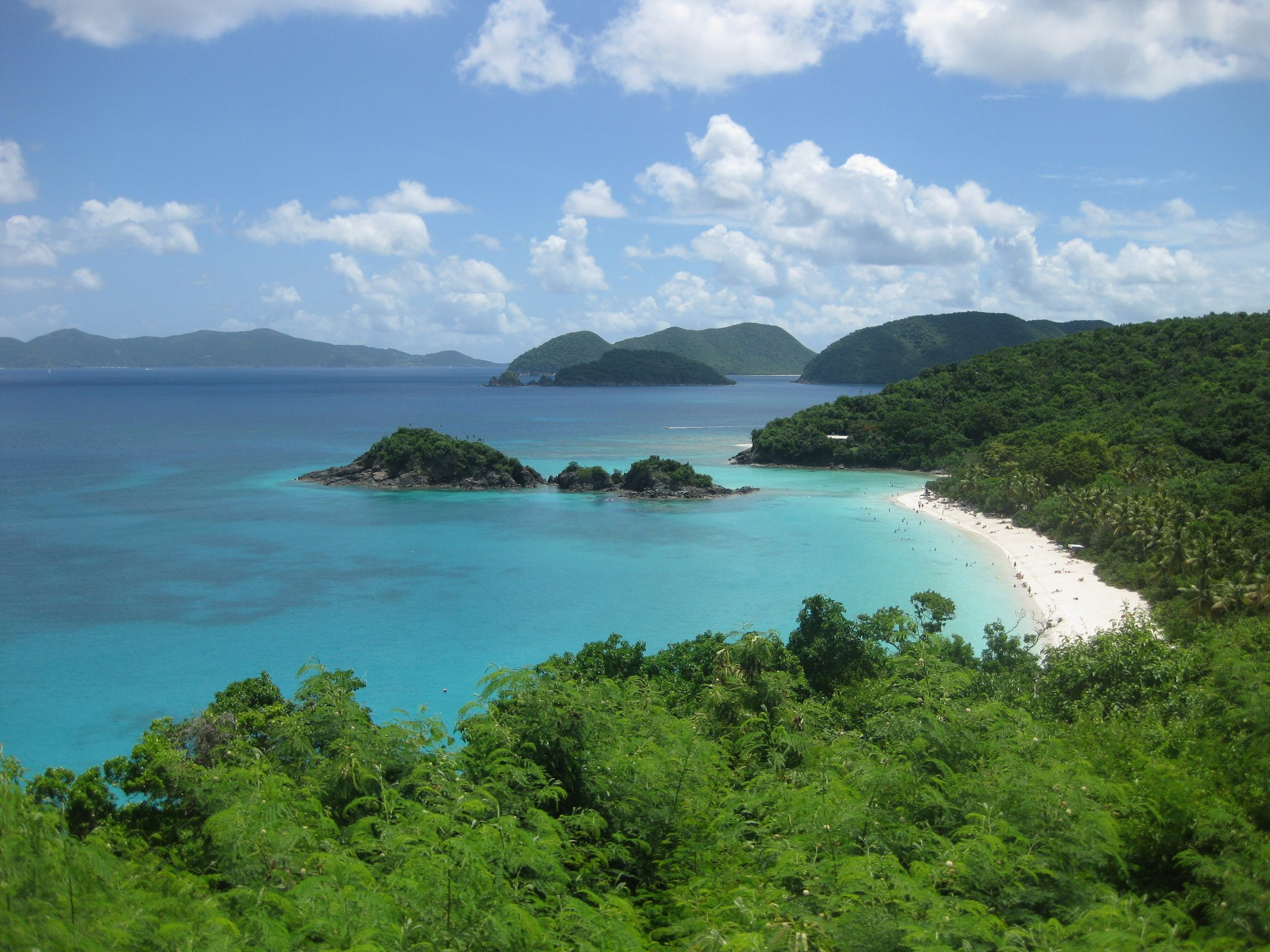 Sunscreen in the Waters — Resource managers at the Virgin Islands National Park (VINP) on St. John, U.S. Virgin Islands, are concerned about the negative effects of sunscreen chemicals in coastal waters of the park. Often included in cosmetic and plastic products to minimize the damaging effects of ultraviolet light, sunscreen chemicals can be toxic to some aquatic organisms if the concentrations are high enough. With over a million tourists visiting the park each year, the probability is high that the coastal waters of VINP are contaminated by sunscreen chemicals. A recent USGS study sampled water in several VINP bays and analyzed the samples for sunscreen chemicals. The study found sunscreen chemicals in some samples at concentrations among the highest reported anywhere in the world. Also, the data indicated that beaches, or the visitors to the beaches, were the primary source for the sunscreen chemicals in VINP waters. More studies are planned to gain a better understanding of sunscreen chemical contamination at VINP. Read more about this research at Photo: Trunk Bay, St. John, U.S. Virgin Islands; Kaitlin Kovacs, USGS.